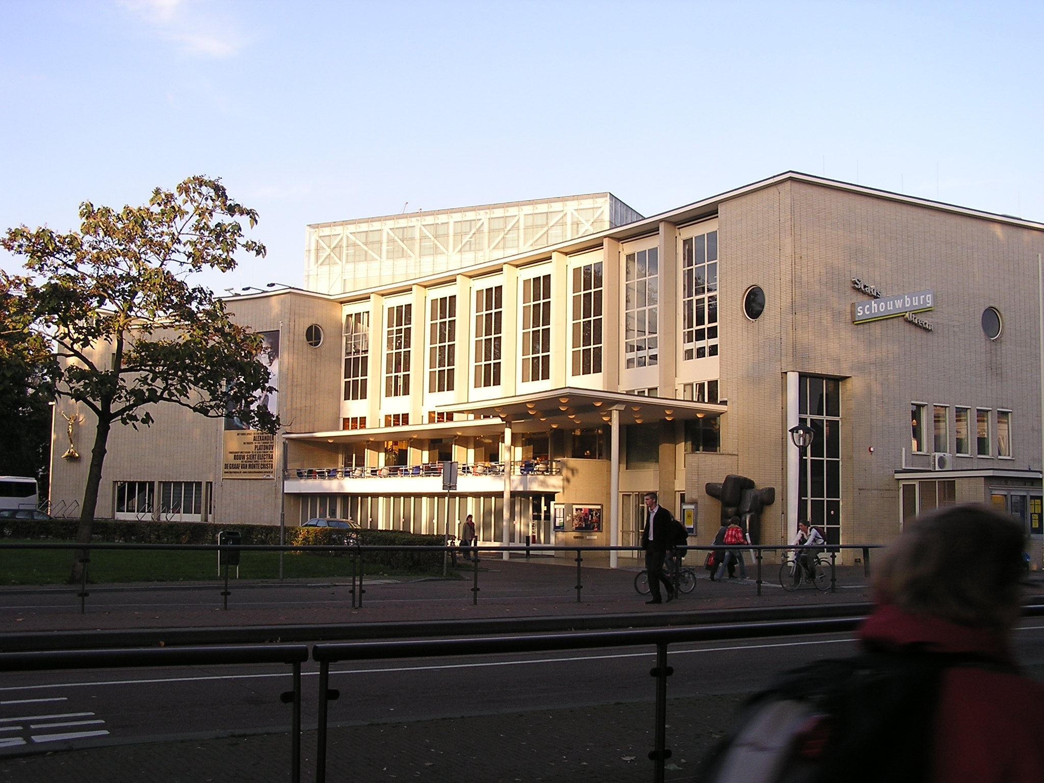 Stadsschouwburg (theatre), Utrecht